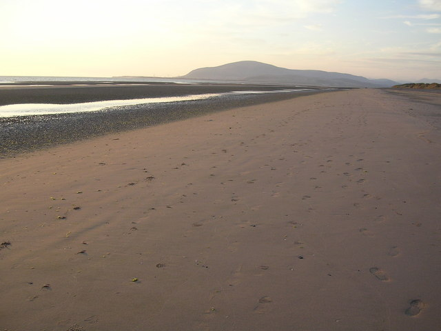 North Walney Beach. Looking north towards Black Combe